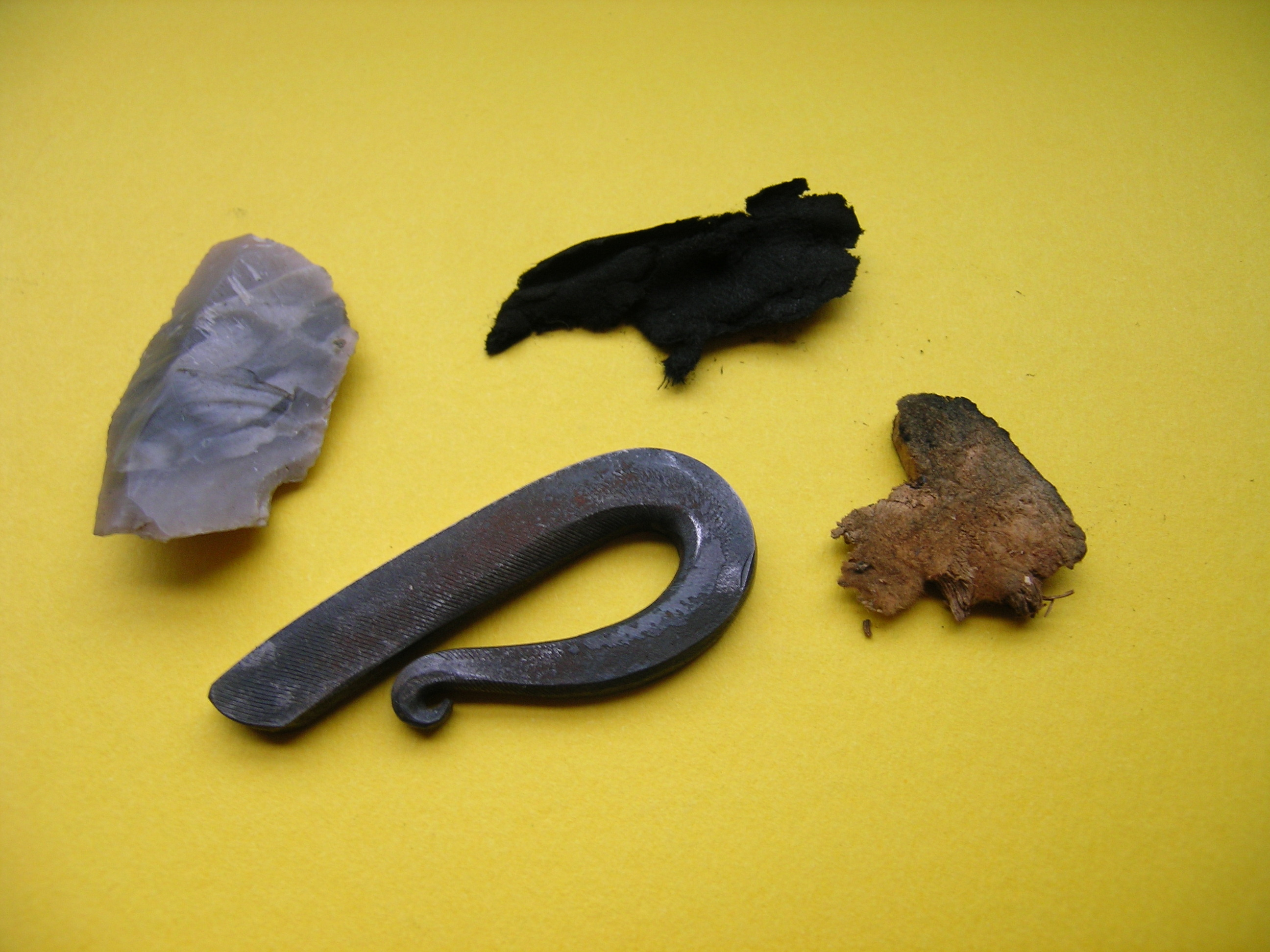 The contents of a tinder box, with charred cloth, a piece of dried mushroom, a piece of flint and a piece of metal for making sparks with the flint, which may be called a 'tyrstan'.